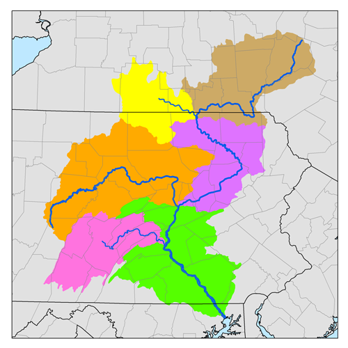 This is a map of the Susquehanna River watershed sub-basins. I, Karl Musser, created it based on USGS data using SRBC as a reference.